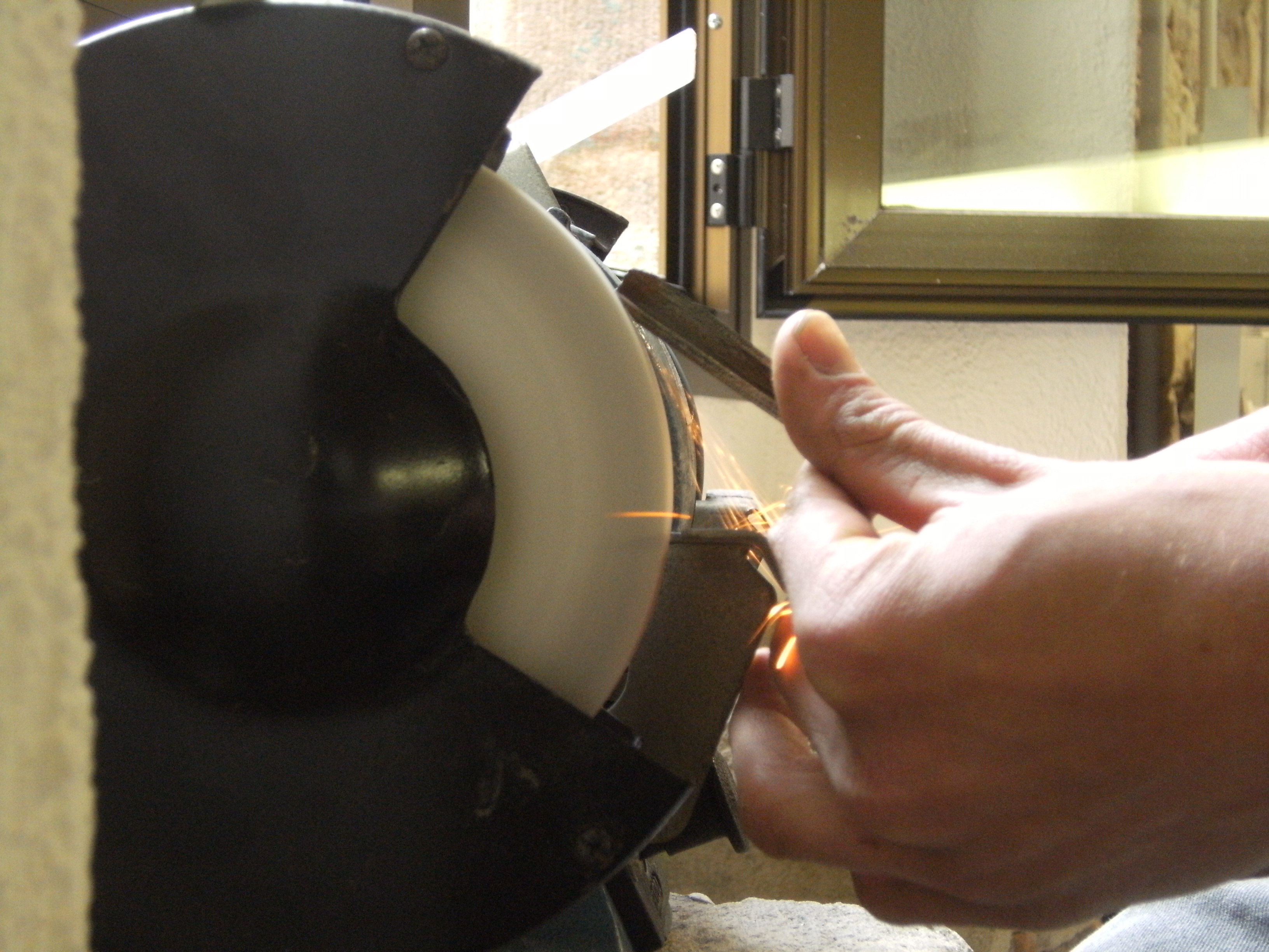 gouge sharpening the grinding machine